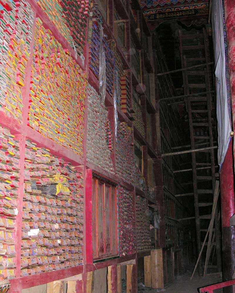 Monastic library with Kanjur and Tanjur on the bookshelves (Riwoche)